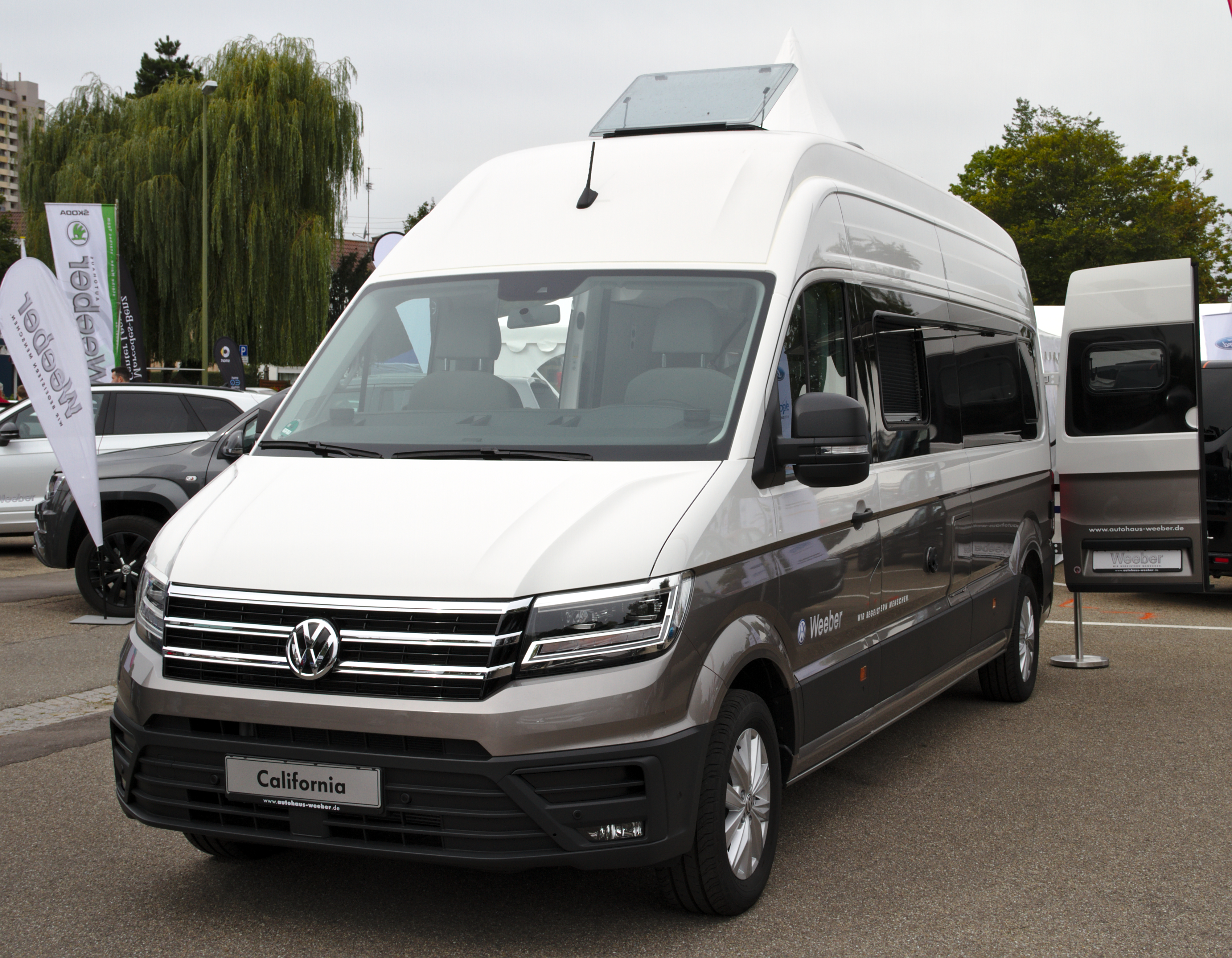 Volkswagen_California XXL at Leonberger Autoschau 2019